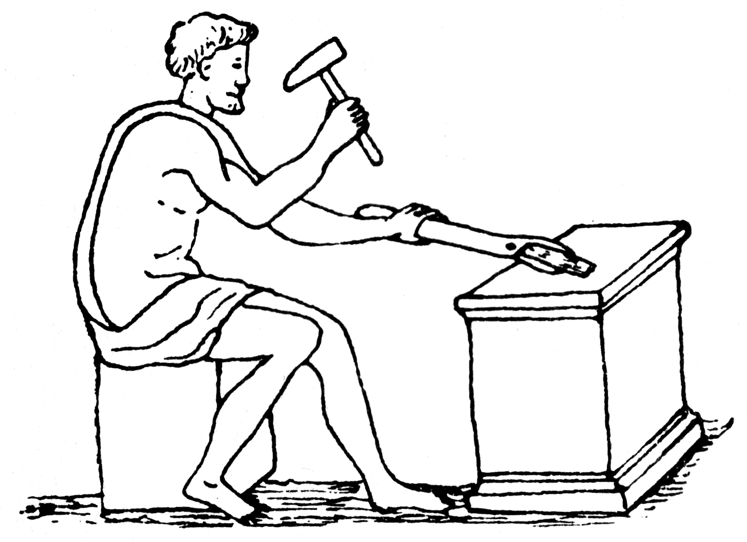 Roman blacksmith